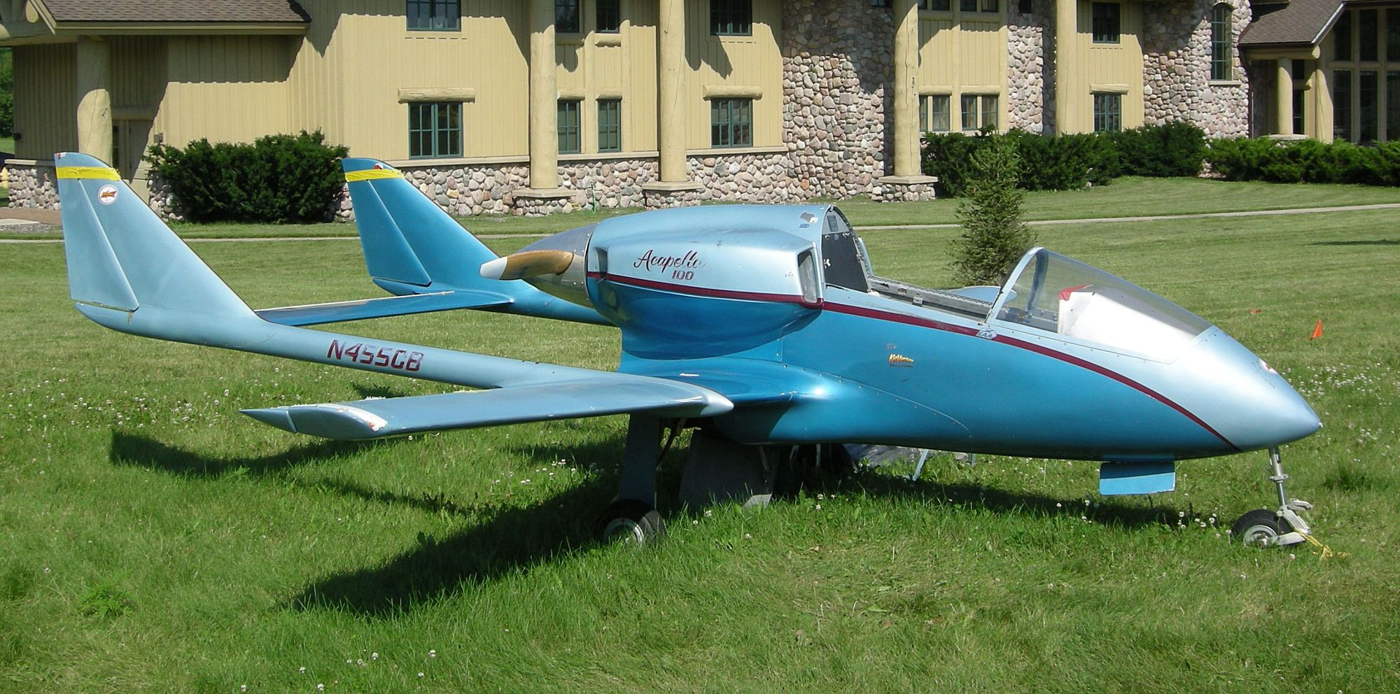 On display at Pioneer Airport, EAA AirVenture Oshkosh